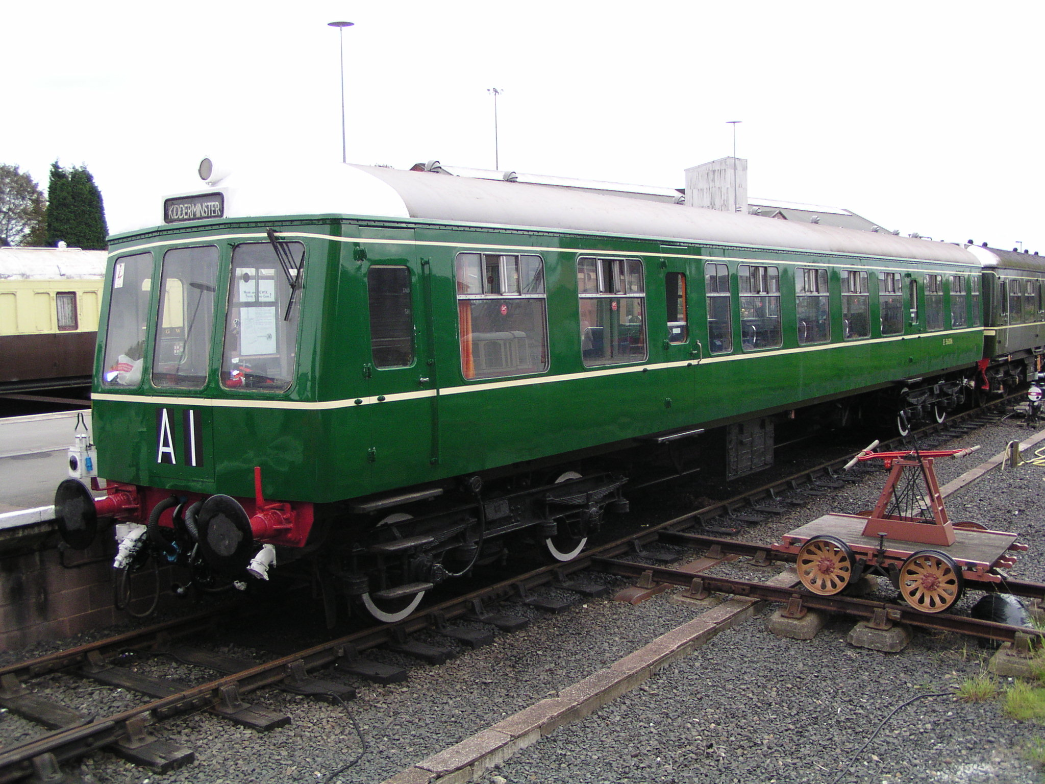 BR Class 114, no. 56006 at Kidderminster on the Severn Valley Railway on 15th October 2004, whilst taking part in the Railcar 50 event. This vehicle has been restored to its original 1956 condition, and is preserved at the Midland Railway Centre.